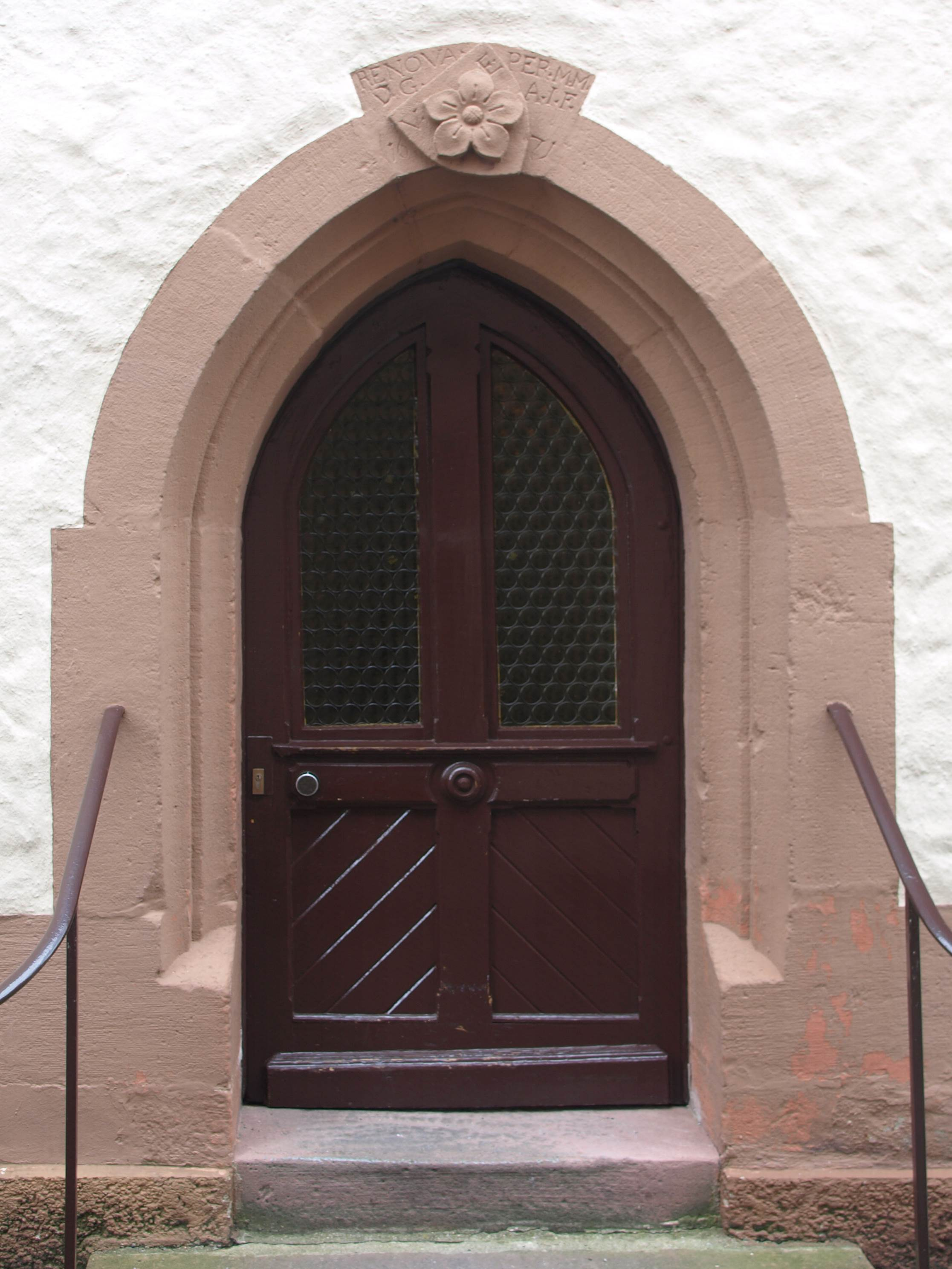 Gothic door with coat of arms of nobility Eberstein